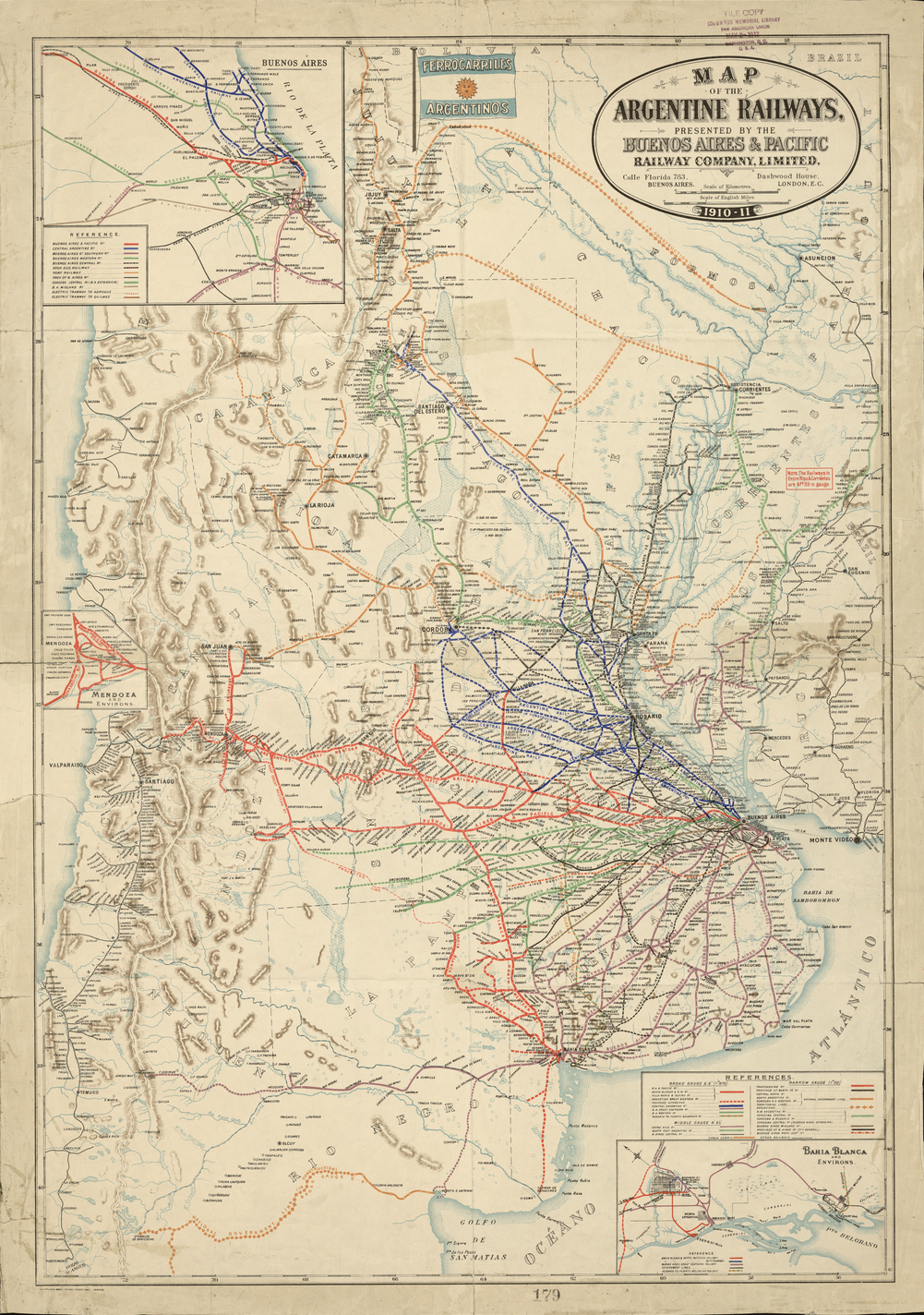 Between 1880 and 1915, the Argentine railroad network expanded from 1,388 miles (2,234 kilometers) to 22,251 miles (35,809 kilometers) in length, making it the longest on the continent of South America and the eighth longest in the world. Railroads played a key role in economic development and national consolidation and made possible Argentina’s emergence as a major exporter of wheat, beef, and other products. The most important railroads were owned and built by British companies, which were granted concessions by the Argentine government because of their technical expertise and their ability to raise large sums on the London market to finance the construction. This 1911 map, issued by the Buenos Aires and Pacific Railway Company of Buenos Aires and London, shows the country’s main rail lines. Inset maps show the denser networks in the regions of Buenos Aires, Mendoza, and Bahia Blanca. Most of the British-owned lines adopted the broad-gauge, 5 foot 6 inch (1.68 meter) standard, wider than the track used in most other parts of the world, including Europe and North America. Other lines used the narrow gauge of 3 foot 3.27 inches (1 meter wide), or the 4 foot 8.5 inch (1.44 meter) standard gauge. Railroads